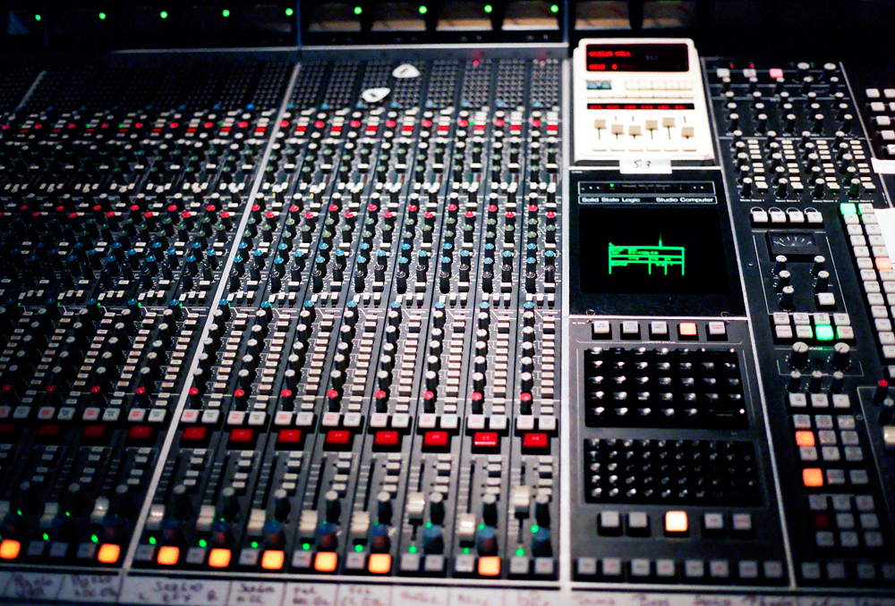 SSL SL 6072E/G at Henson Recording Studios's mixroom